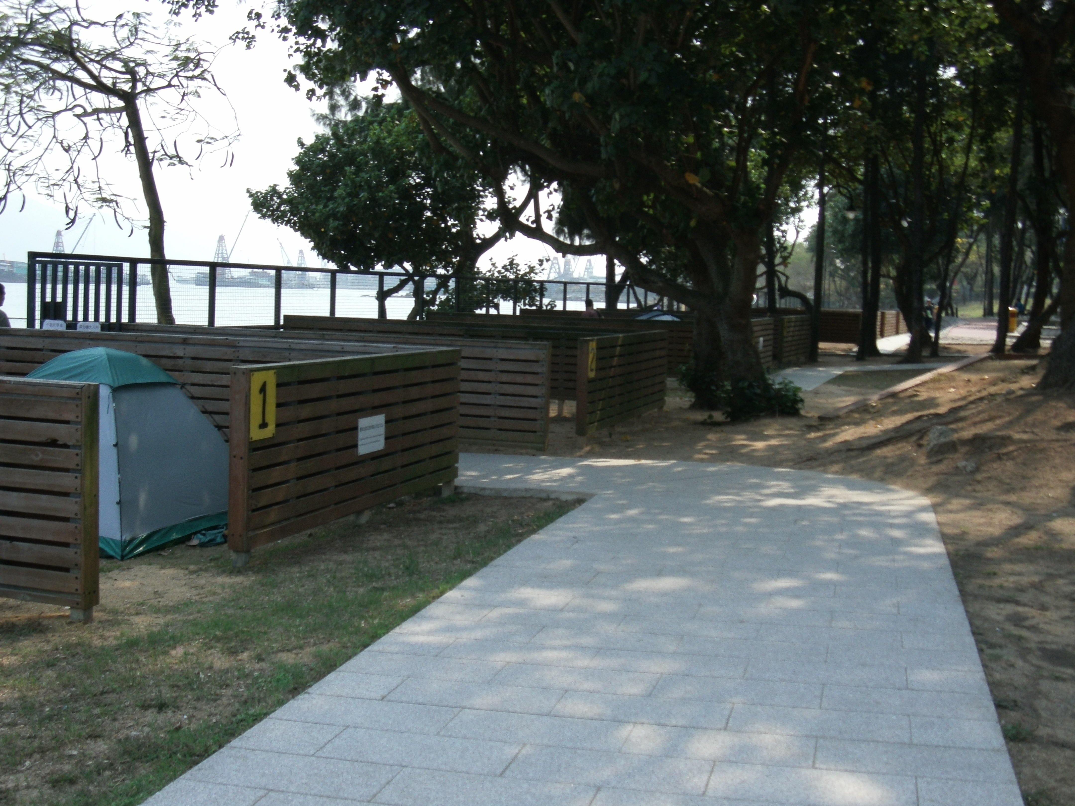 Camping area of Butterfly Bay park in Hong Kong